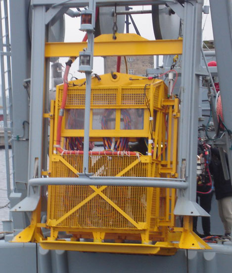 Open diving bell on a stern mounted bracket